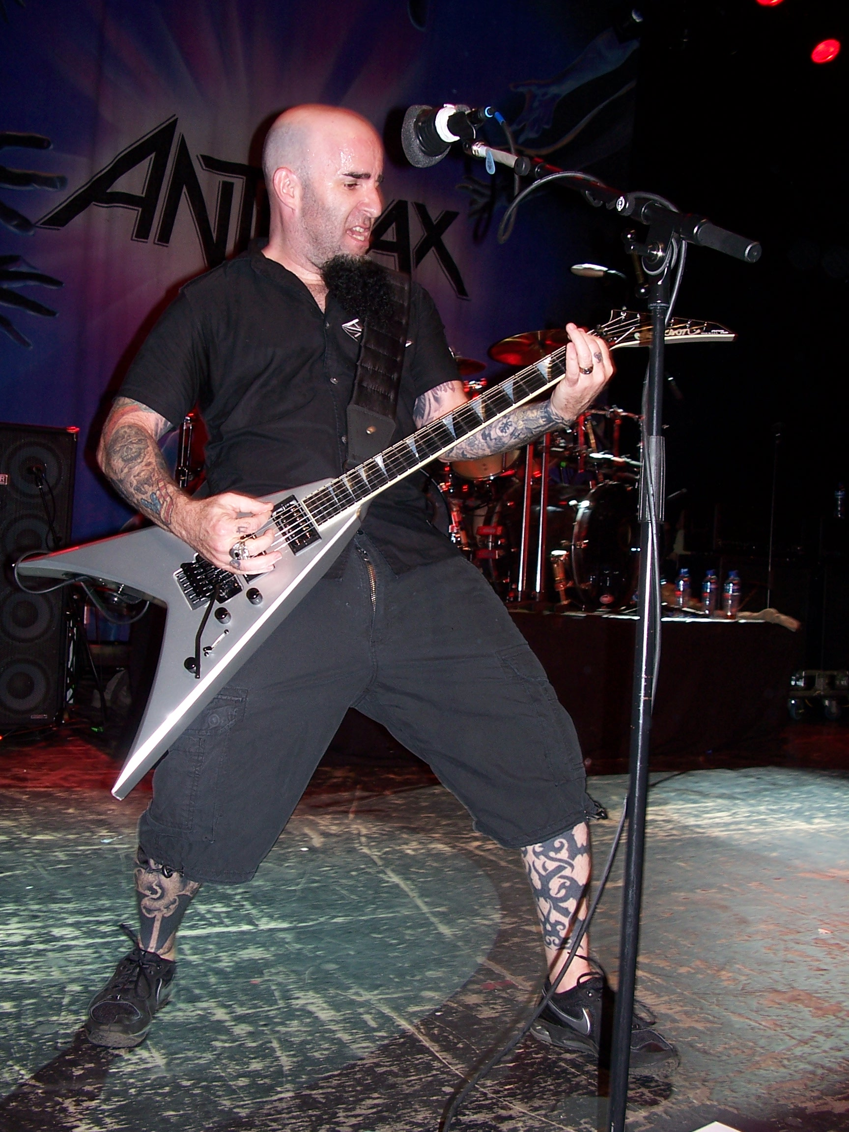 The American heavy metal band Anthrax performing at Paard van Troje, The Hague, The Netherlands on 2009-06-30.